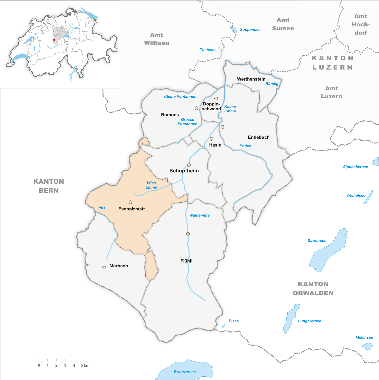 Municipality Escholzmatt